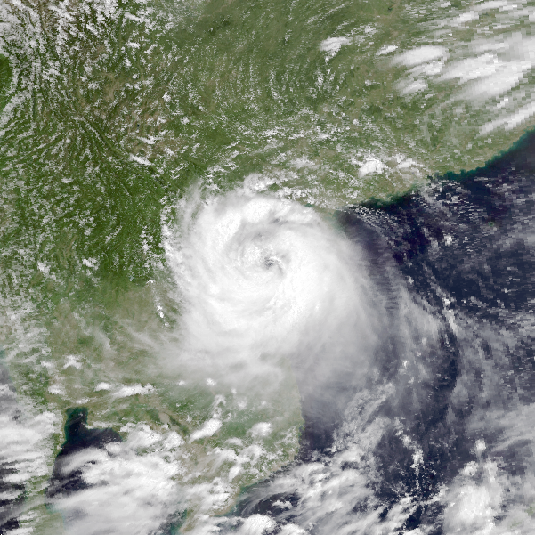 Typhoon Niki on August 22, 1996